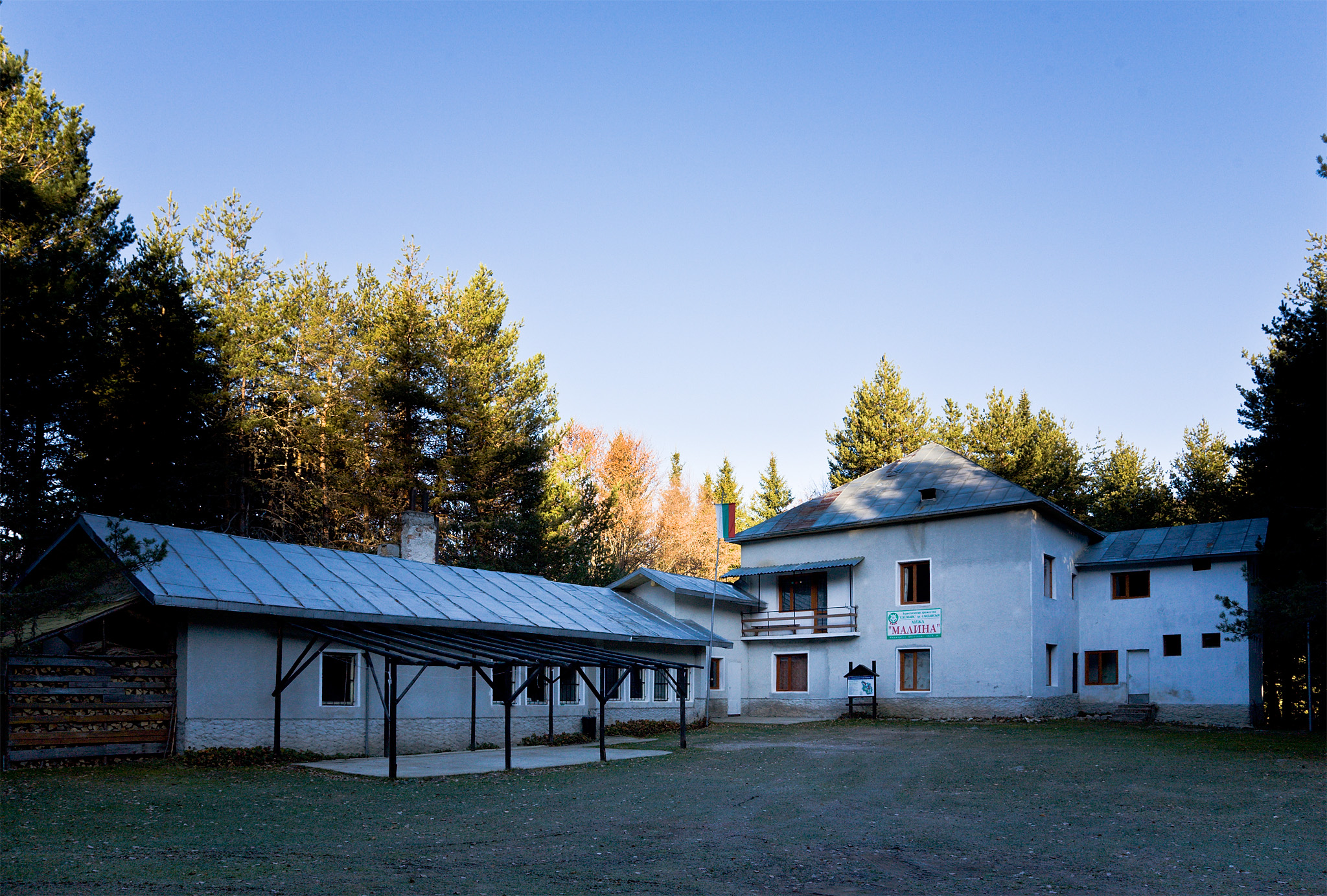 Malina refuge in Pirin moutains, Bulgaria